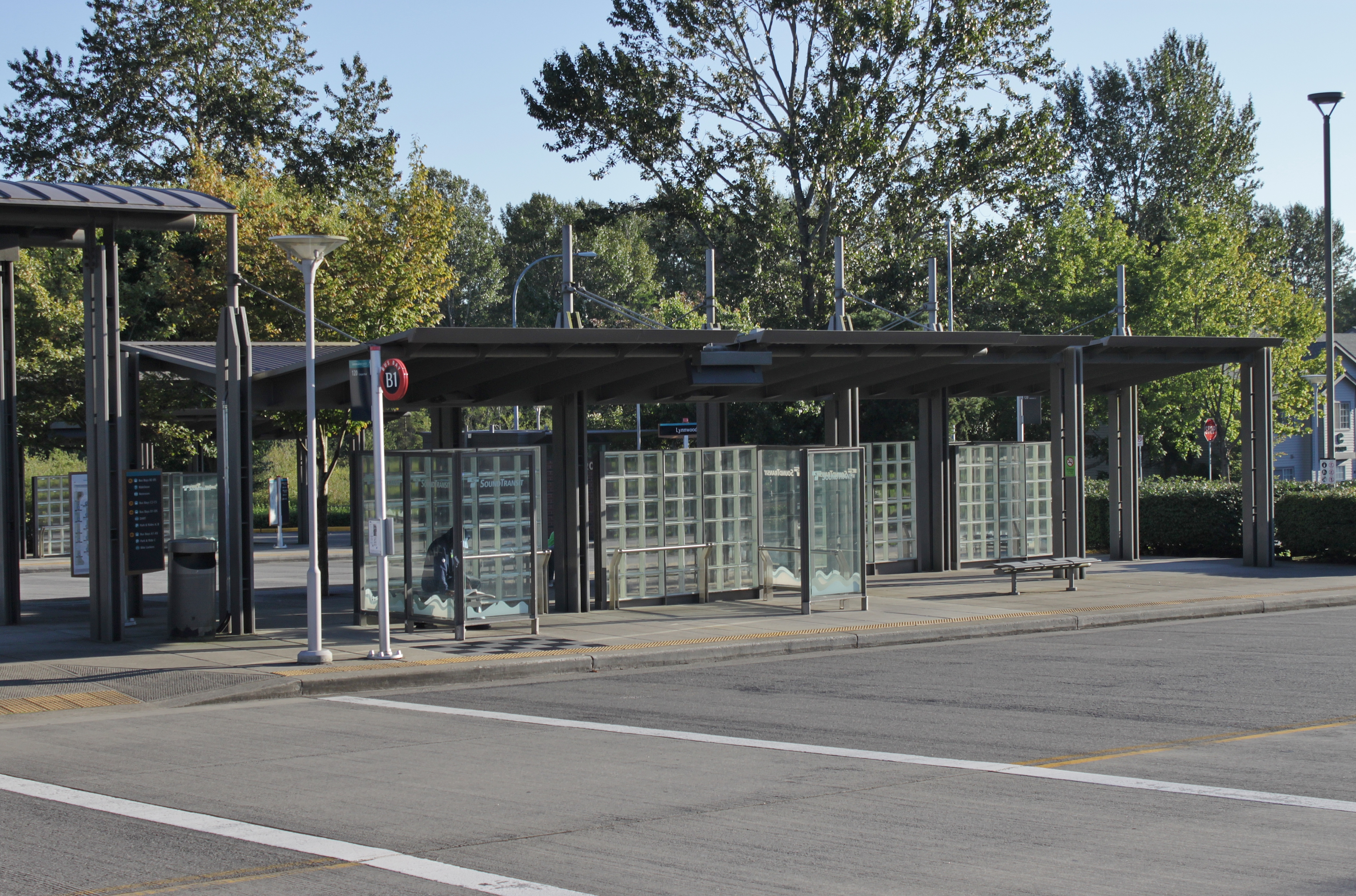 Bay B1 at Lynnwood Transit Center, a bus station in Lynnwood, Washington.